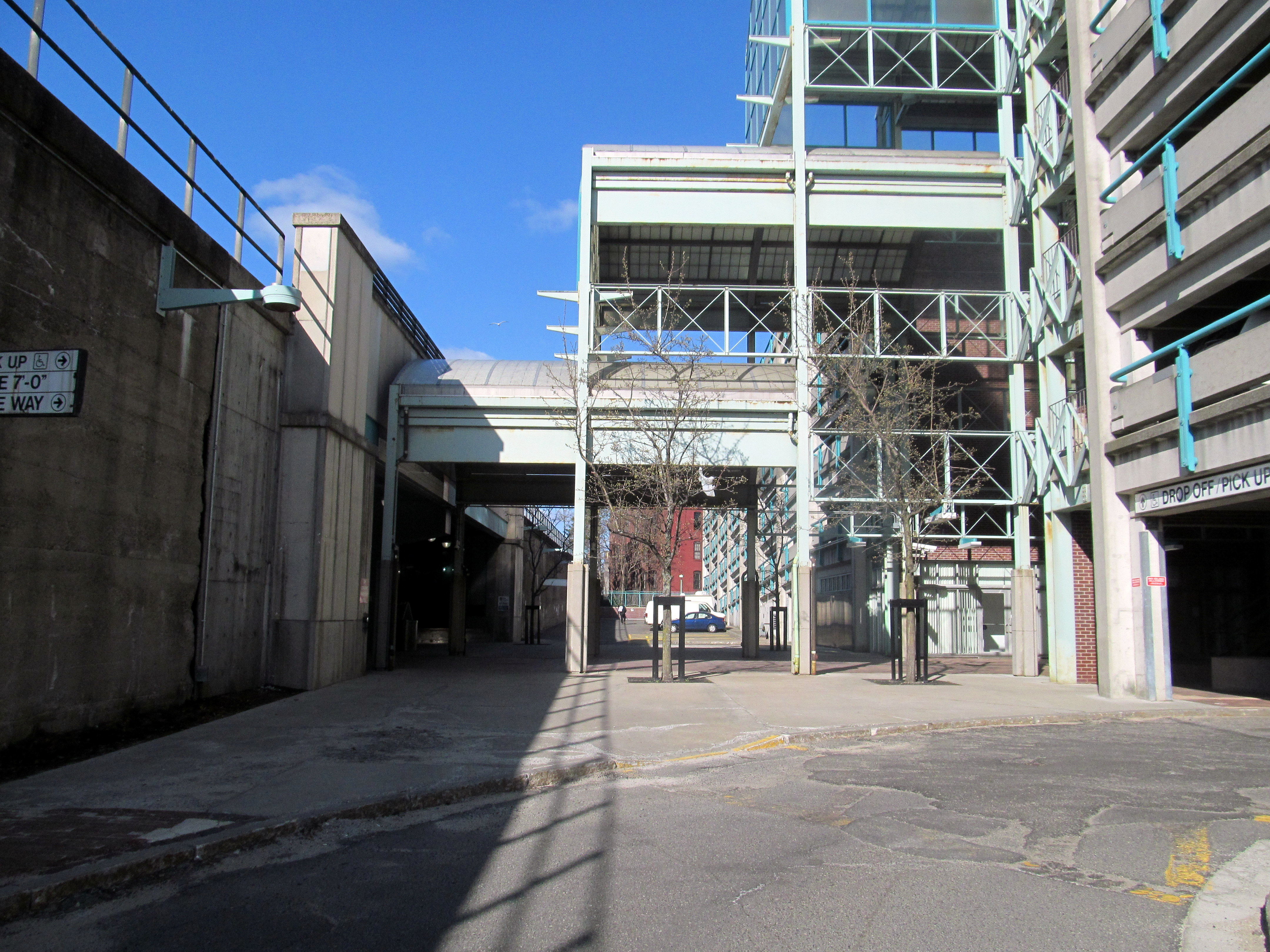 The canopy between the garage and platform at Lynn station in April 2015. This space was reportedly left for a future Blue Line station.